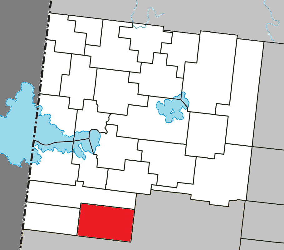 Location of Duparquet, Quebec within Abitibi-Ouest Regional County Municipality.